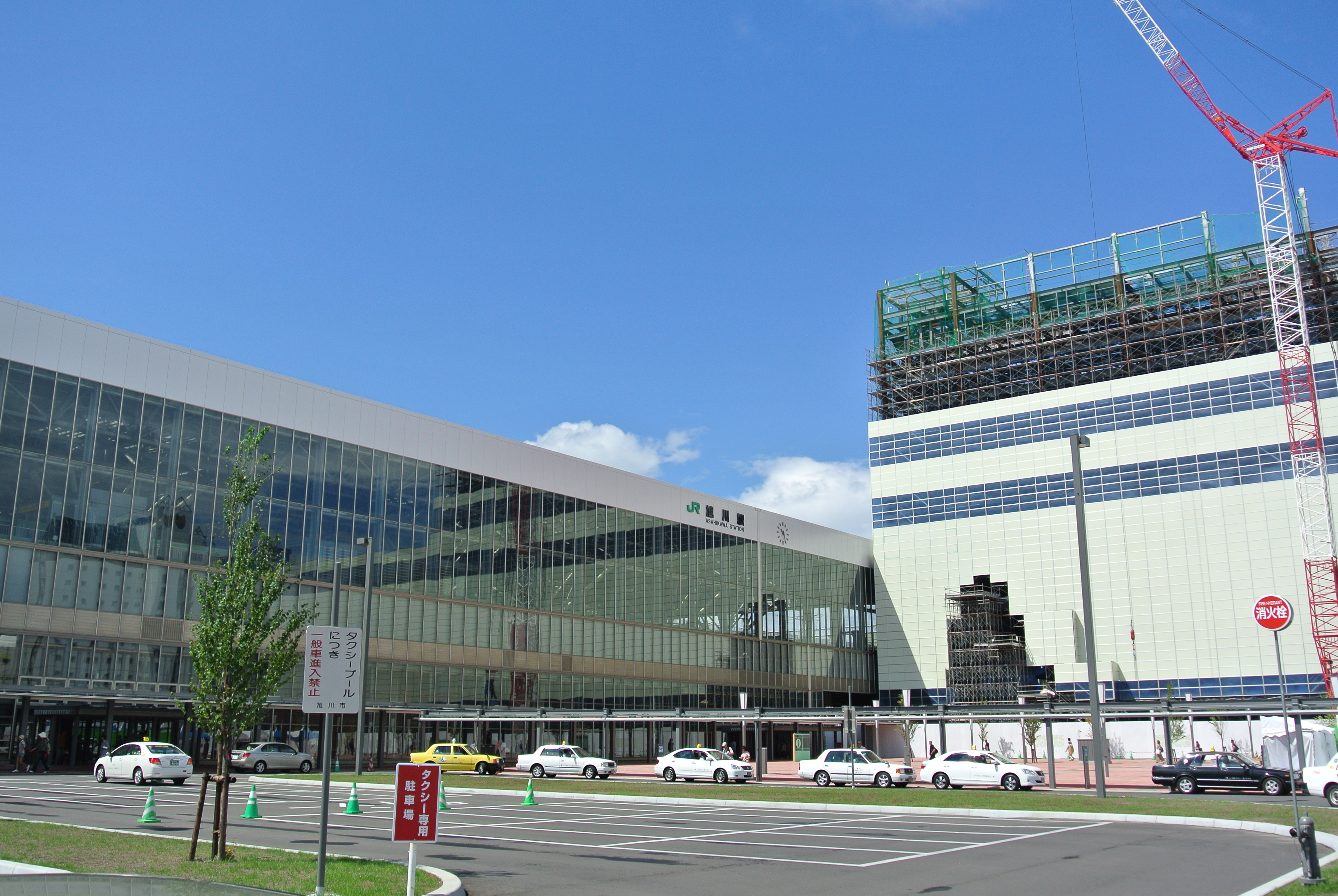 Asahikawa Station Nikon 1 J2